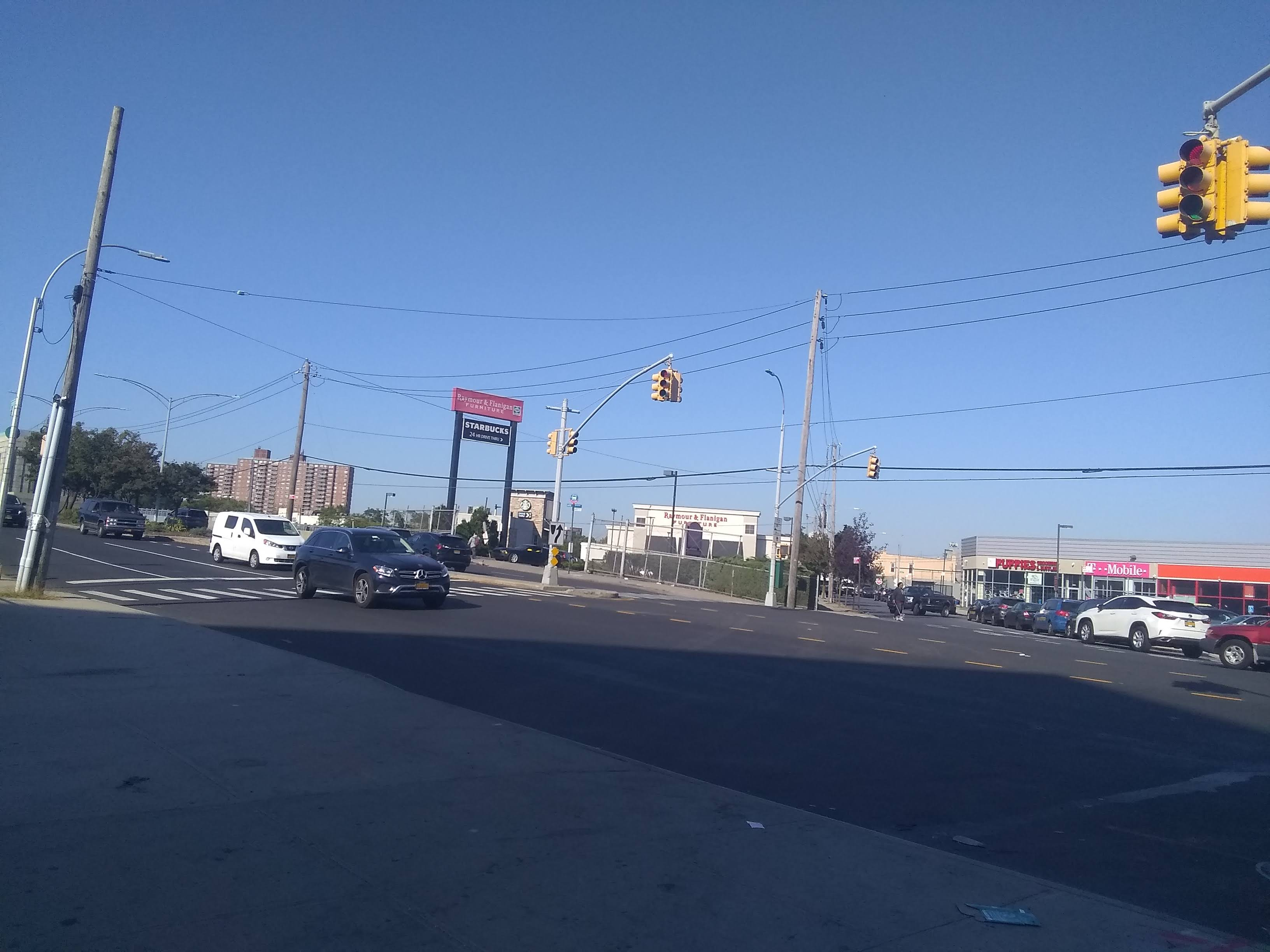 Cropsey Avenue in Brooklyn, New York, September 2019; just south of Coney Island Creek bridge